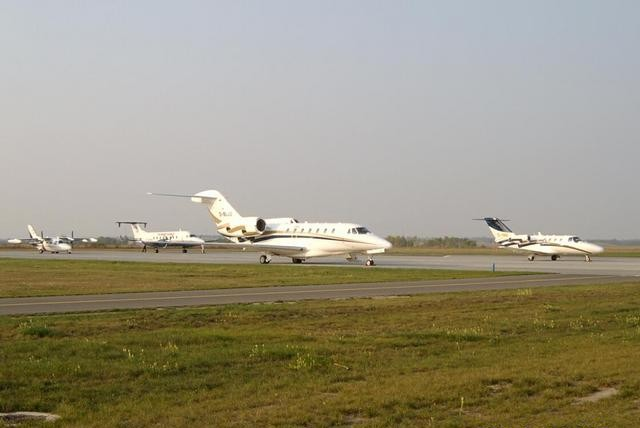 Győr-Pér International Airport